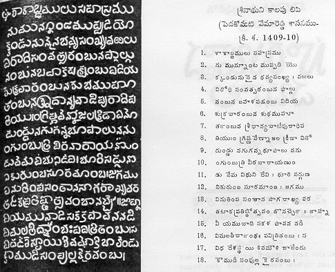 Telugu inscriptions c. 15th century.